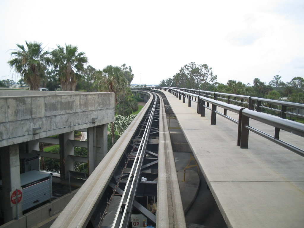 people mover at Orlando International Airport, may 2005 US Airways baggage carts can be seen at the bottom left.